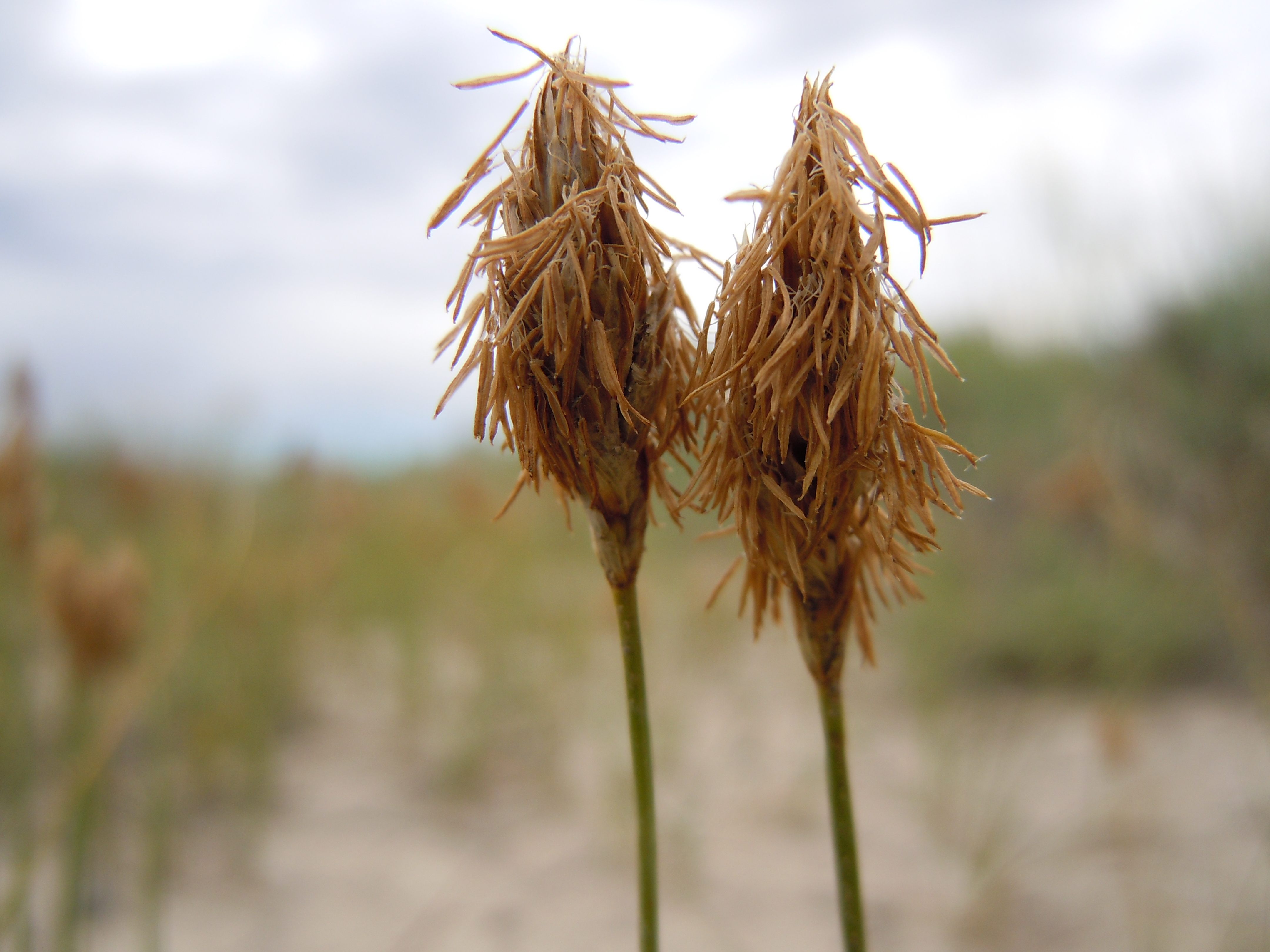 The staminate inflorescence is often thick and covered with brownish anthers.